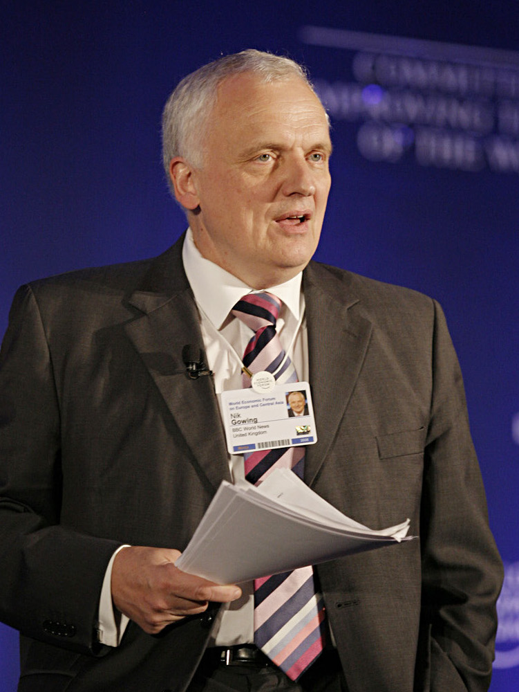 Nik Gowing, British journalist and presenter for BBC World News, speaking during the session "Reaching South: Building the New Silk Road" at the World Economic Forum on Europe and Central Asia 2008 in Istanbul, Turkey.